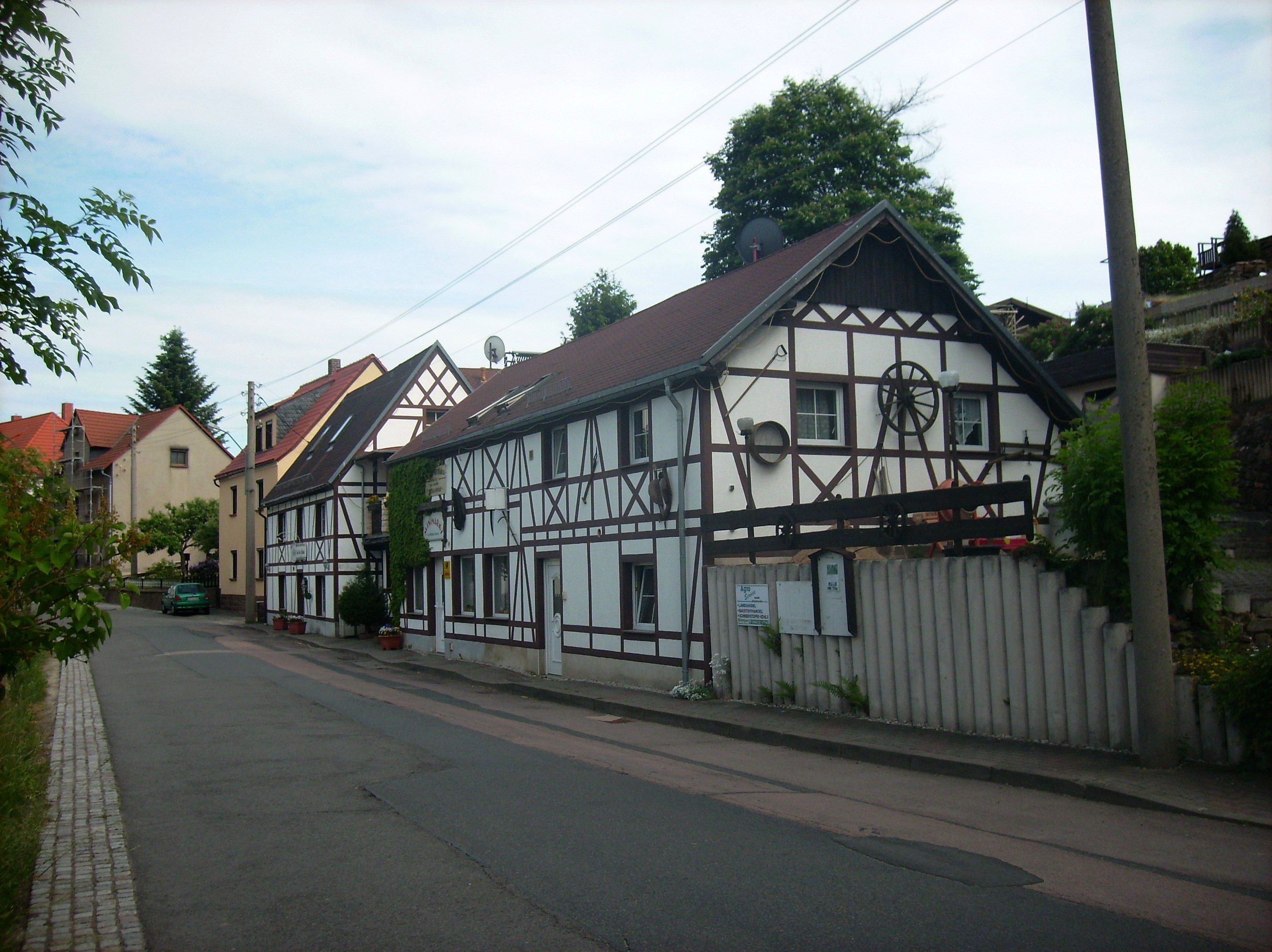 Half-timbered buildings in Böhrigen (Striegistal, Mittelsachsen district, Saxony)